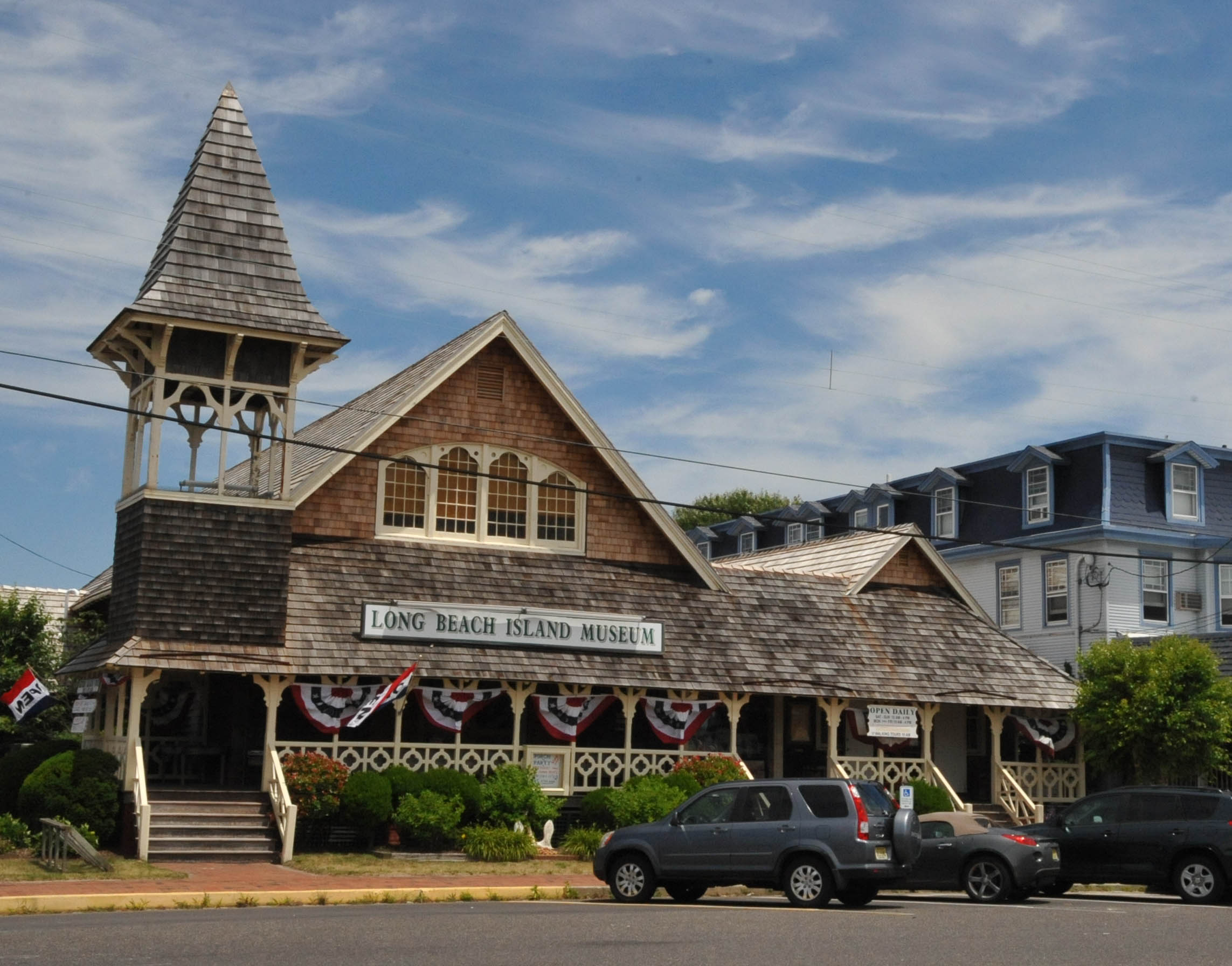 LONG BEACH ISLAND MUSEUM LOCATED IN THE FORMER HOLY INNOCENTS MISSION CHURCH; BUILT IN 1882